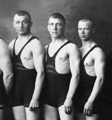 Finnish team for the international match against Germany. Left-right: Väinö Kajander, Otto Oksanen, Otto Lasanen